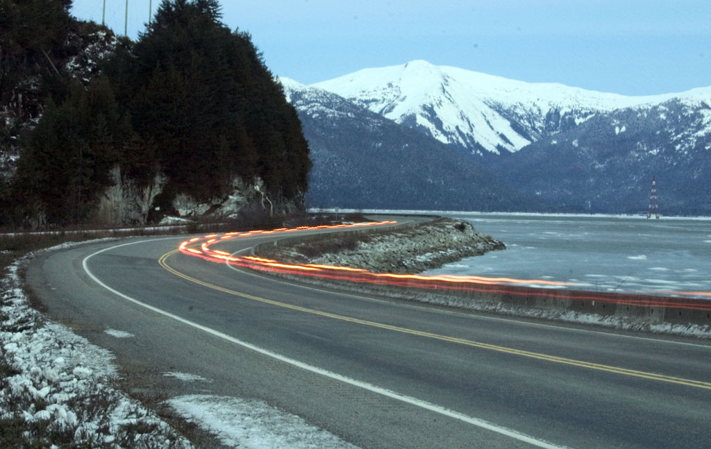 Skeena River at Tyee point. Highway 16. Open shutter as I drive by.